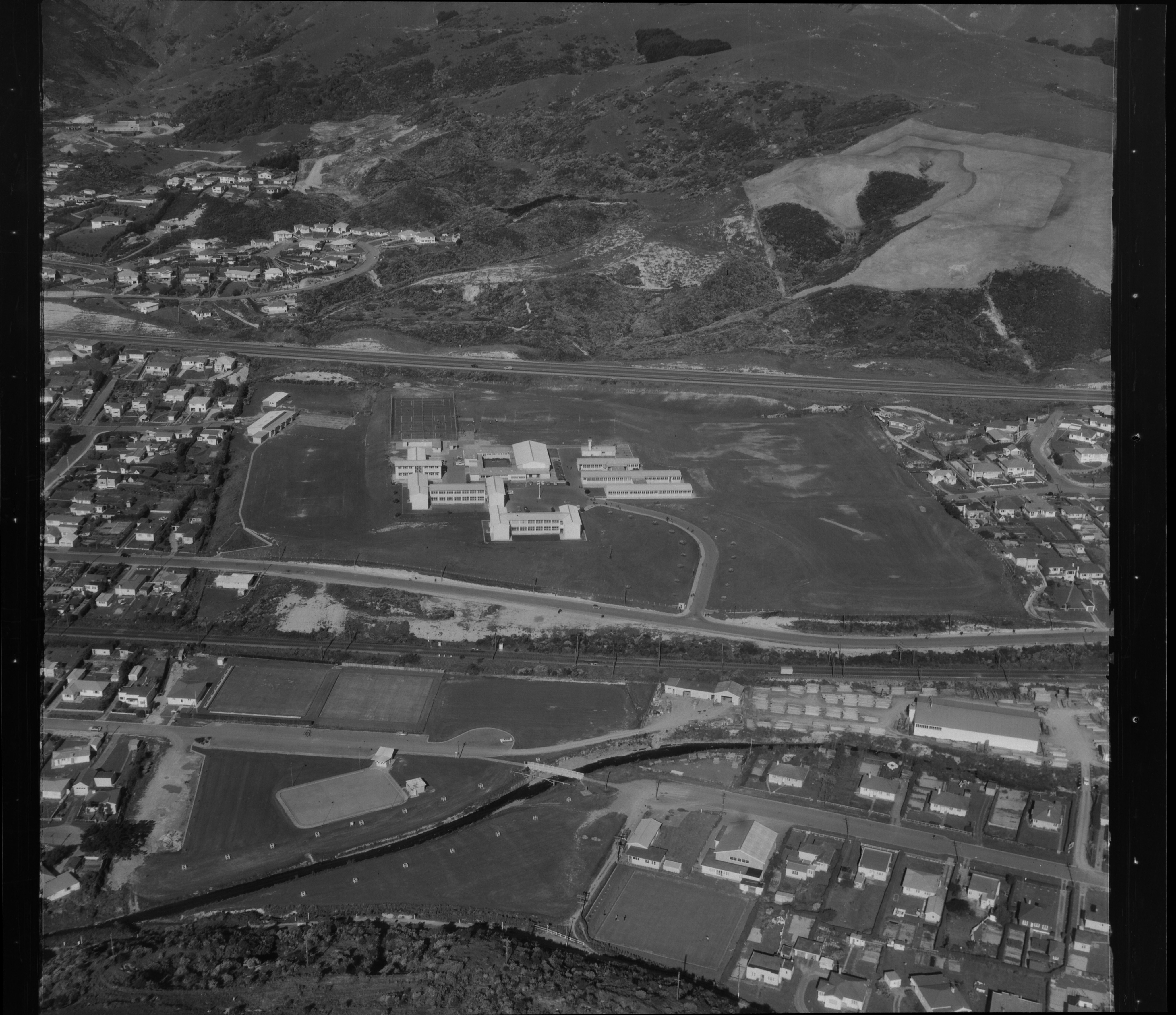 Tawa, featuring Tawa College Ref: WA-65310-F Aerial photograph taken by Whites Aviation. Quantity: 1 b&w original negative(s). Physical Description: Cellulosic film negative, 1/2 plate